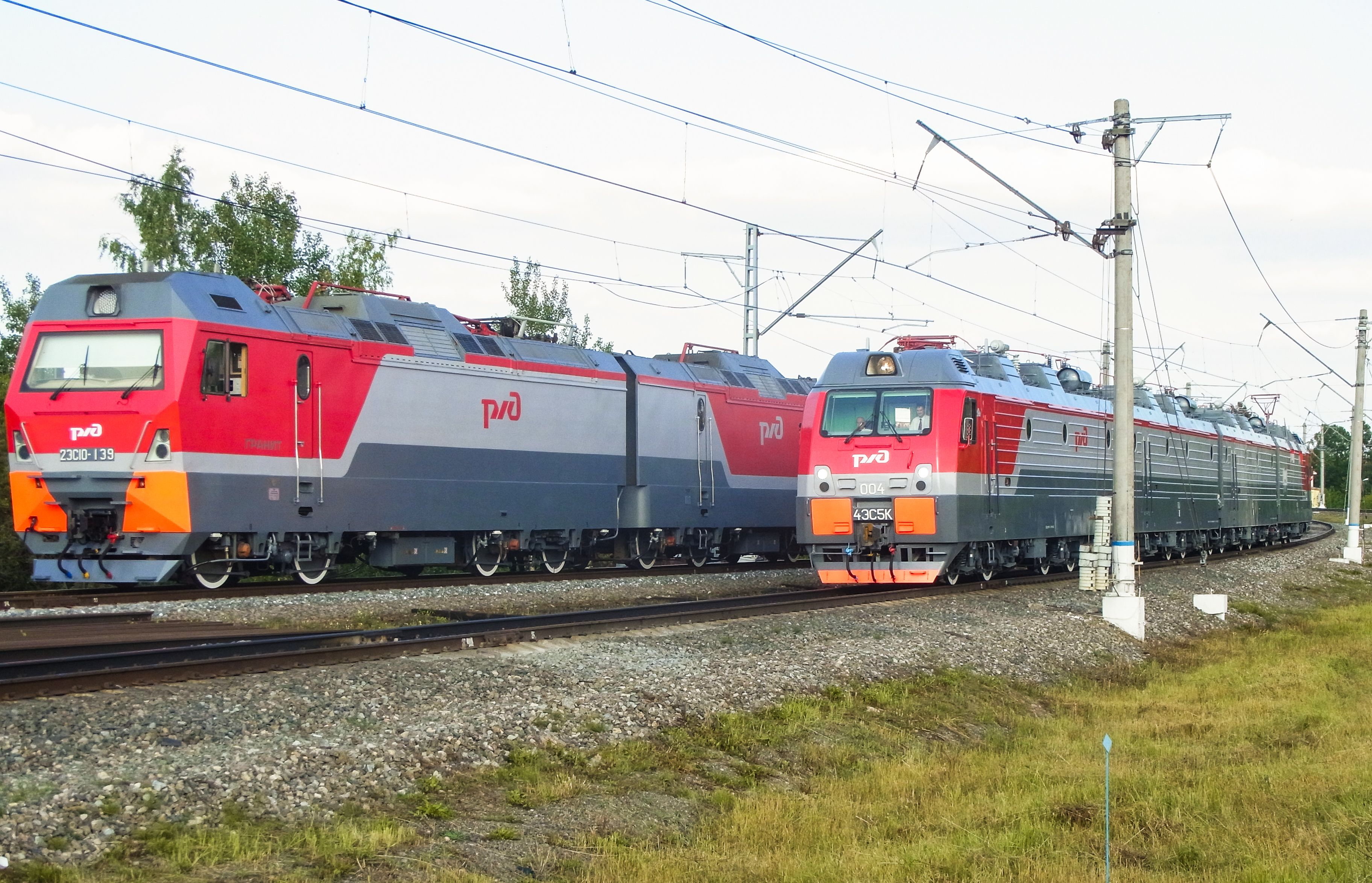 Electric locomotives 2ES10-139 and 4ES5K-004 at train parade during Expo 1520 railway exhibition in 2017 on railway test circuit in Shcherbinka, Moscow, Russia